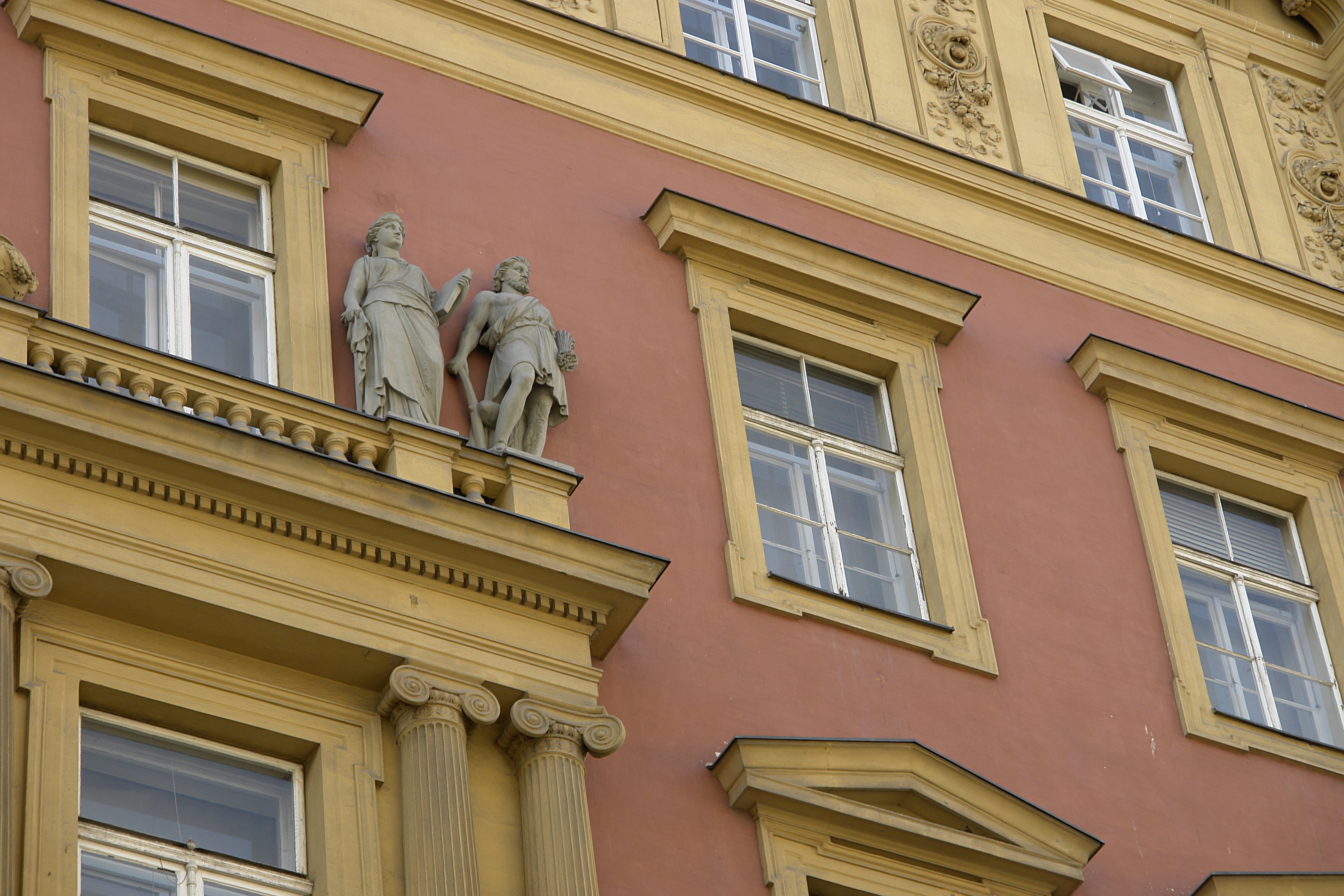 Palace Hansen Vienna Austria 2010